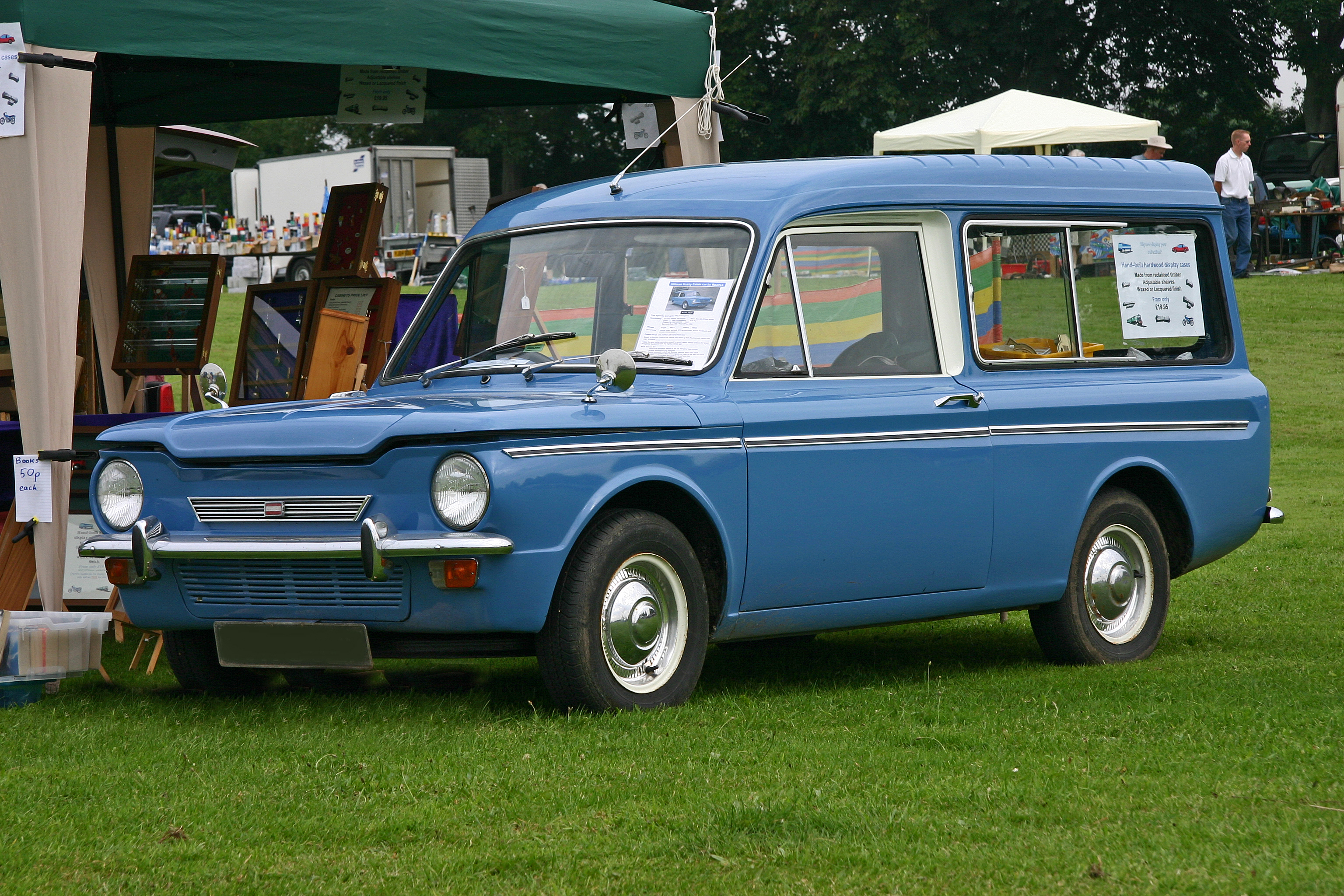 Hillman Husky. The Commer Imp van was the basis for the Hillman Husky. Whereas the Commer Imp got a detuned Imp engine, the Husky was given the same power unit as the Imp and Chamois cars.